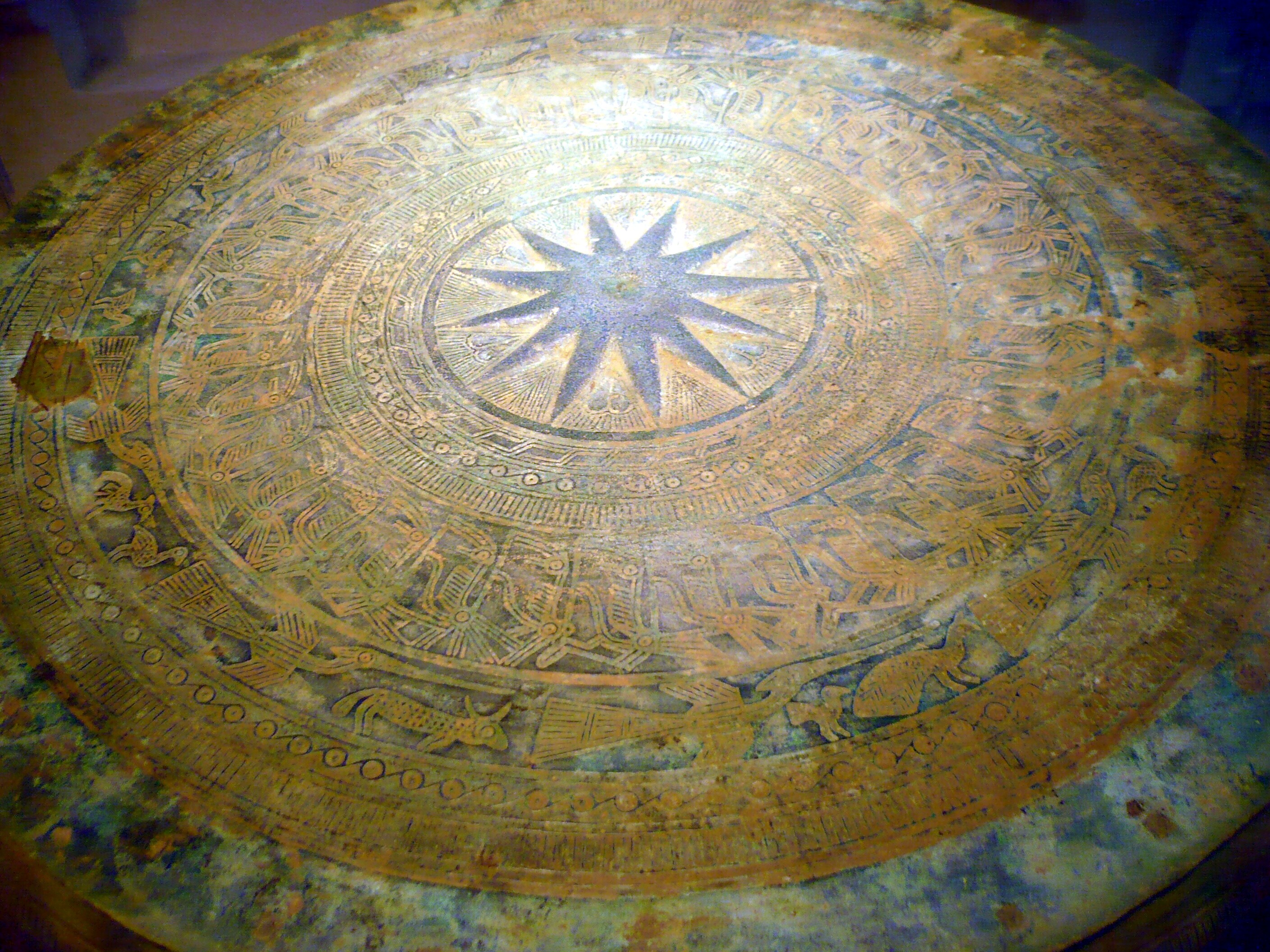 Trống đồng Đông Sơn Đông Sơn Bronze Drum